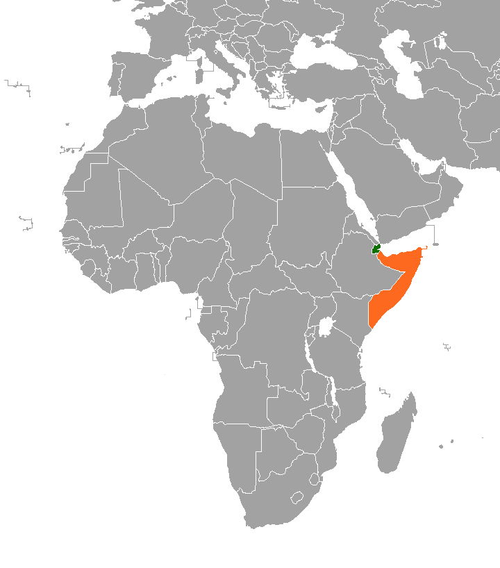 Bilateral locator map of Djibouti (in green) and Somalia (in orange).